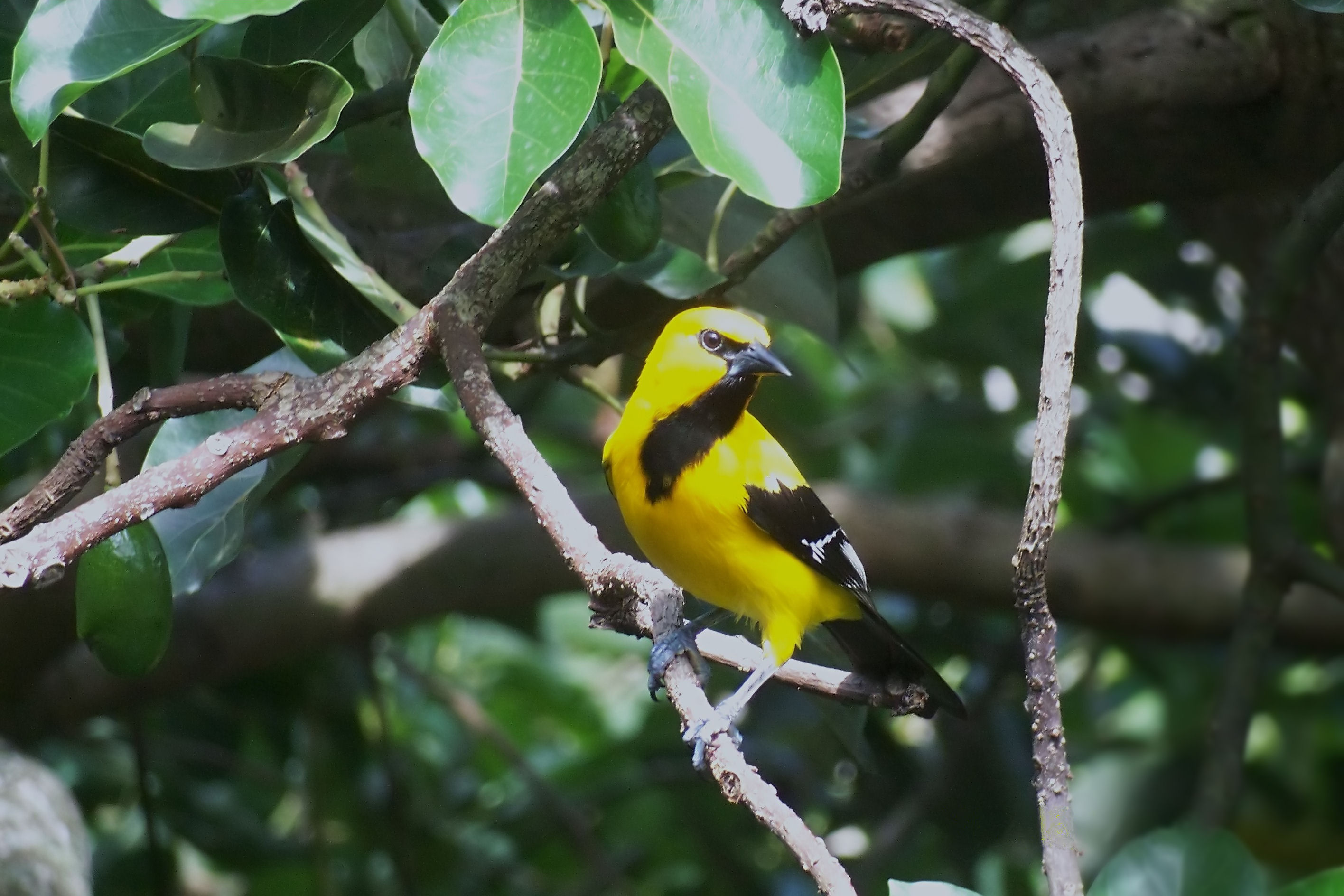 Picture of Yellow Oriole Icterus nigrogularis, which is a native of Trinidad & Tobago. It was taken today after viewing your "list of Birds of Trinidad & Tobago" webpage and I realized you did not have a good picture of this bird on the site.